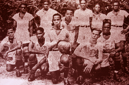 SV Robinhoo 1945